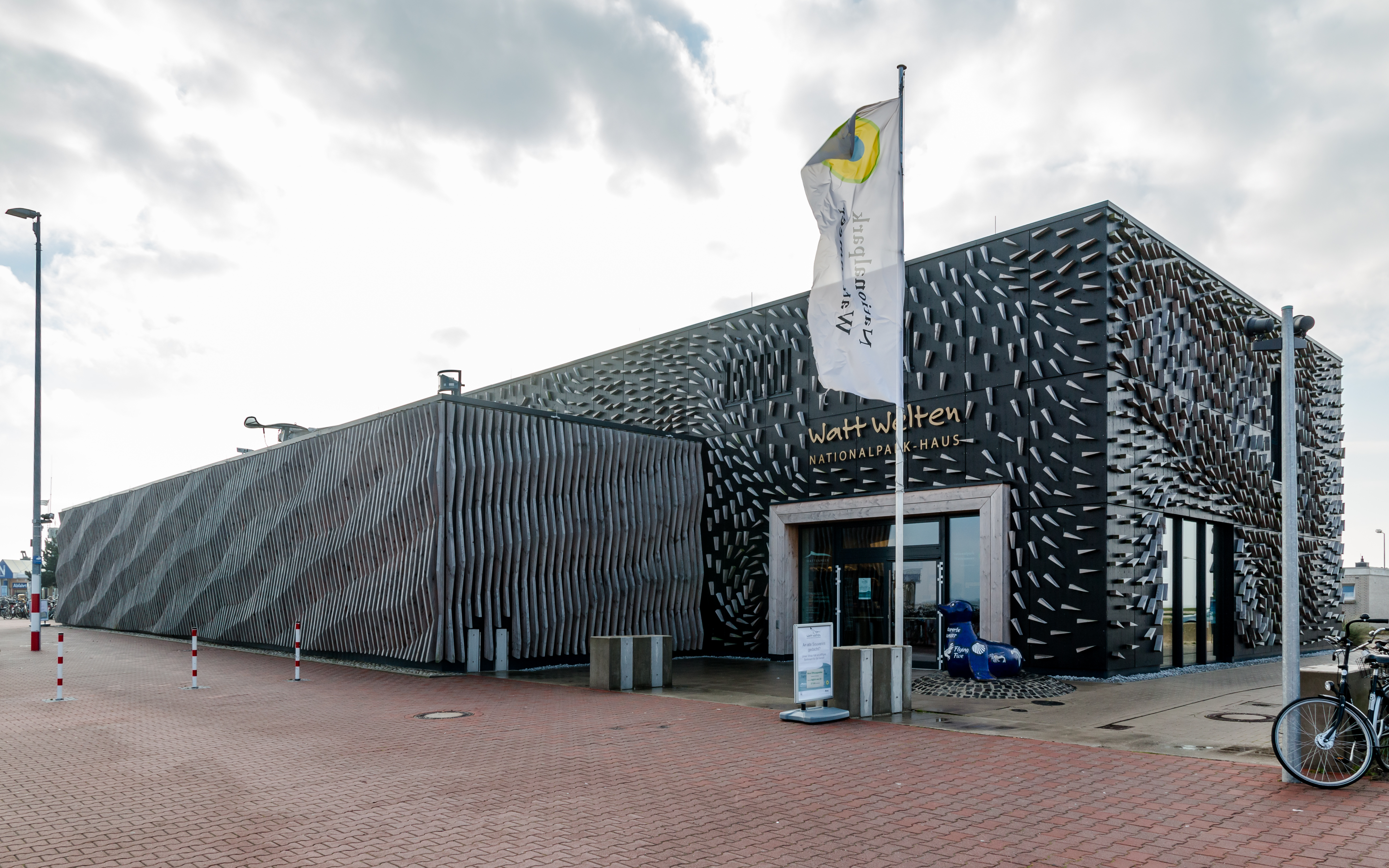 National park house “Watt Welten” in harbour on Norderney, Lower Saxony, Germany